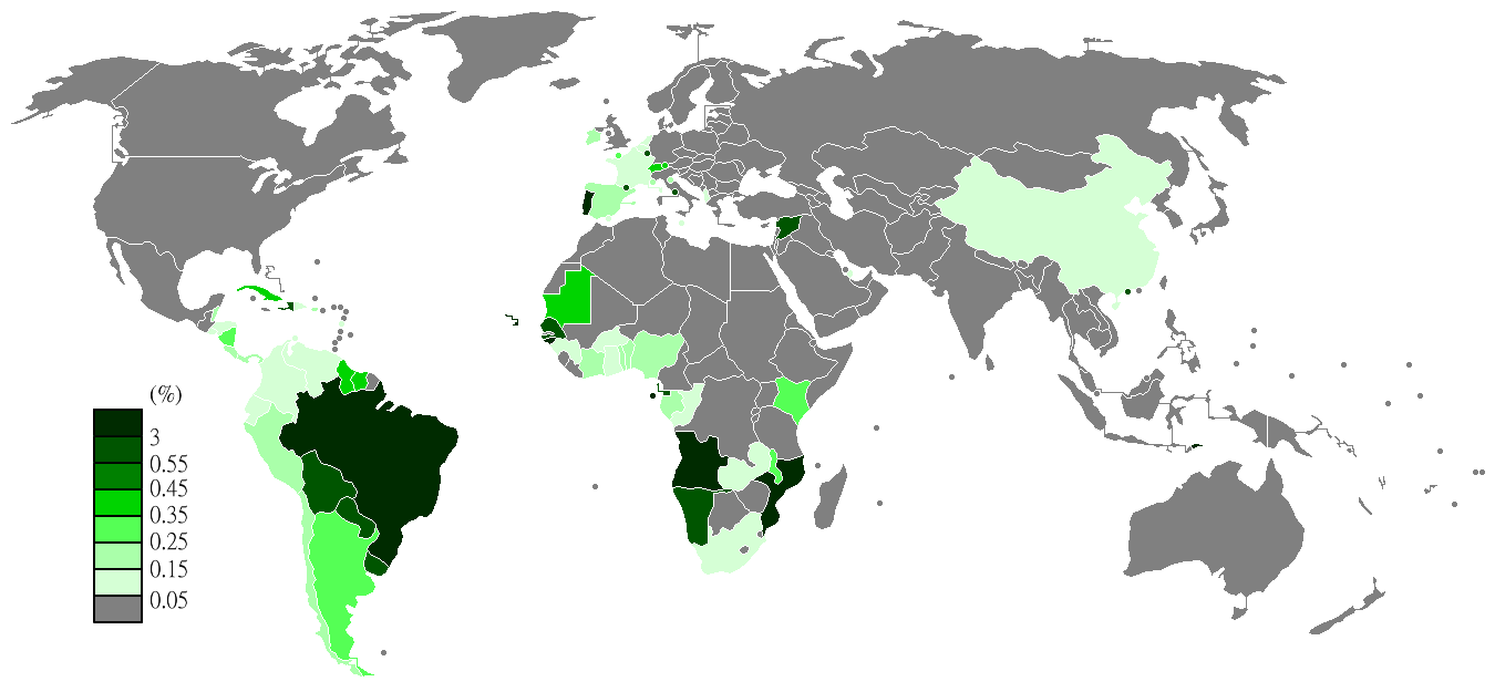 Portuguese Wikipedia Page view ratio by country 201110-201209